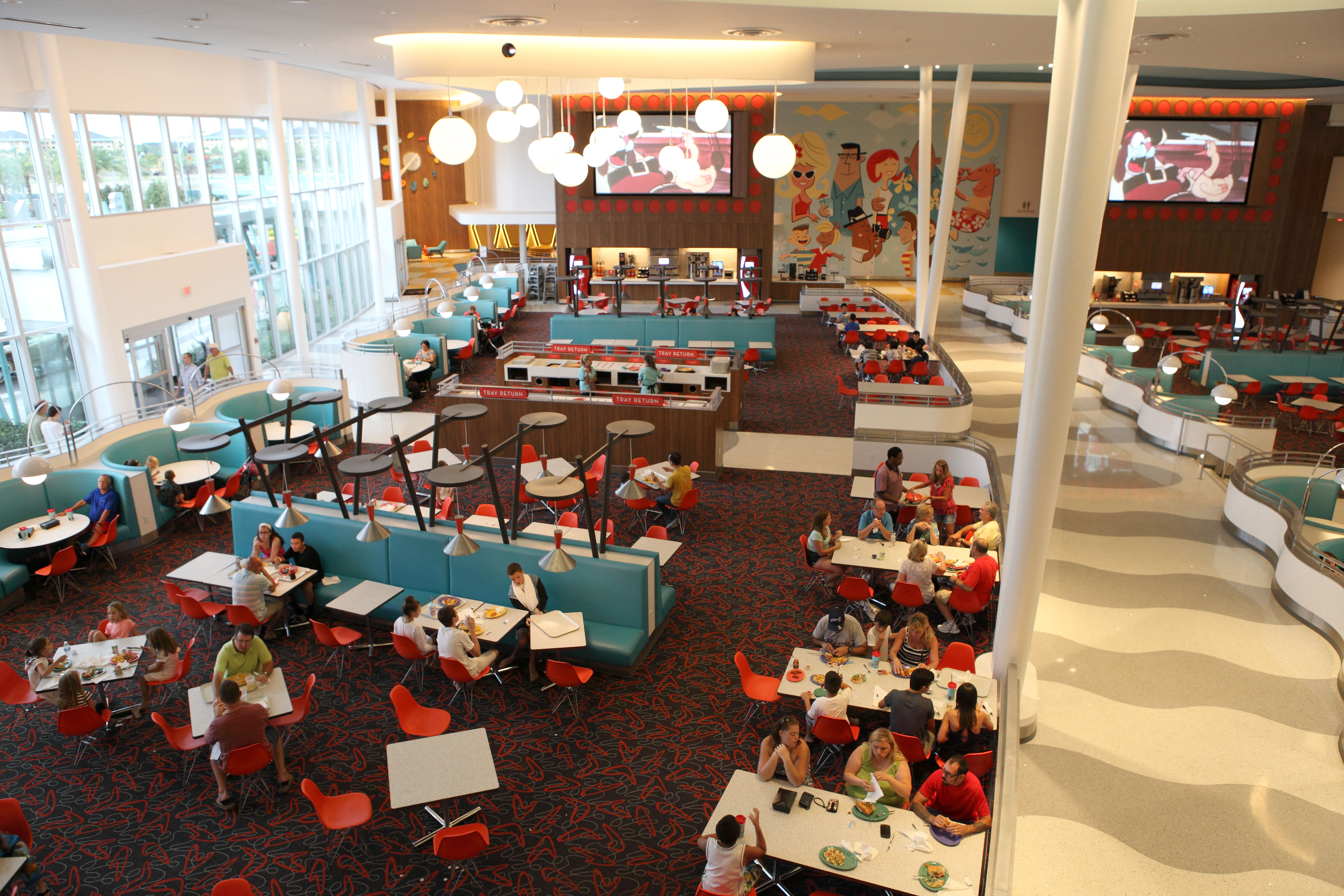 The interior of the Bayliner Diner